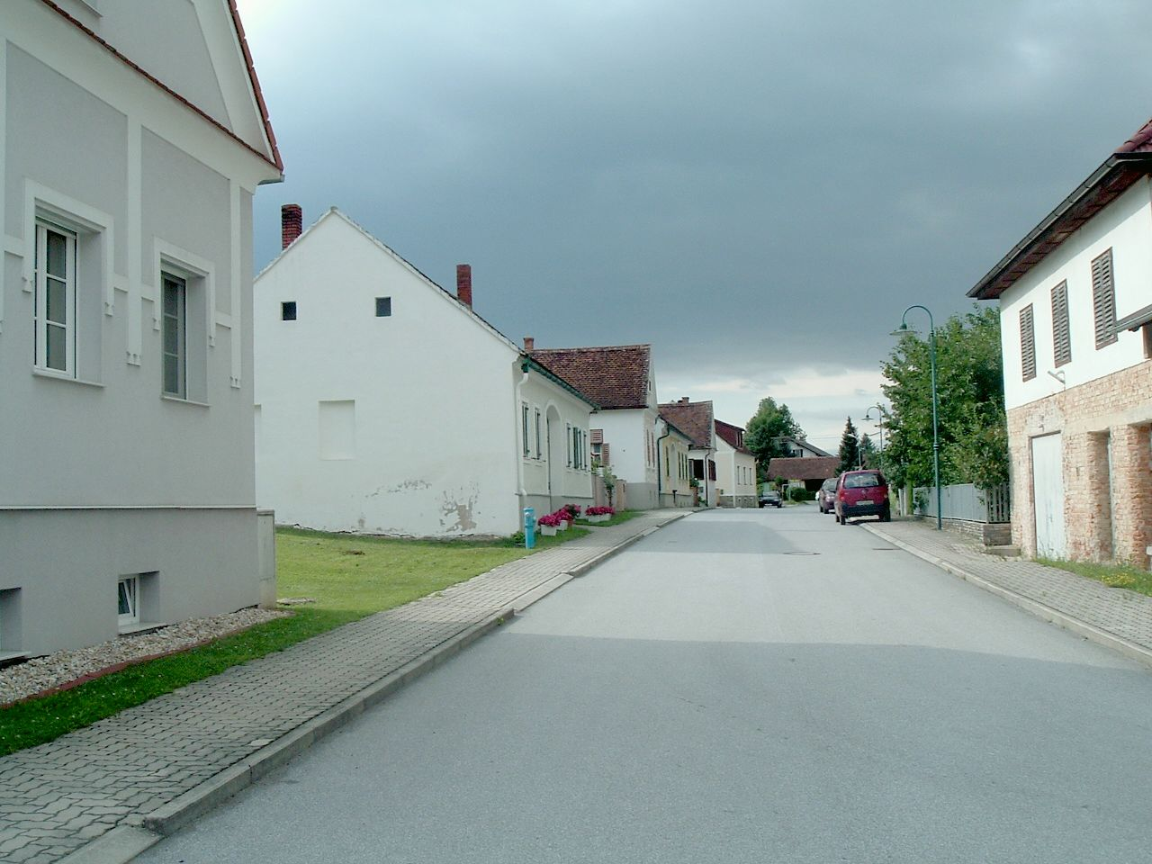 Kirchfidisch (Egyházasfüzes)